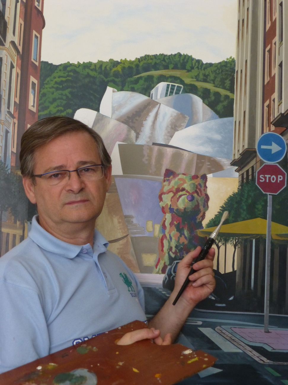 Guggenhein museum at Bilbao City